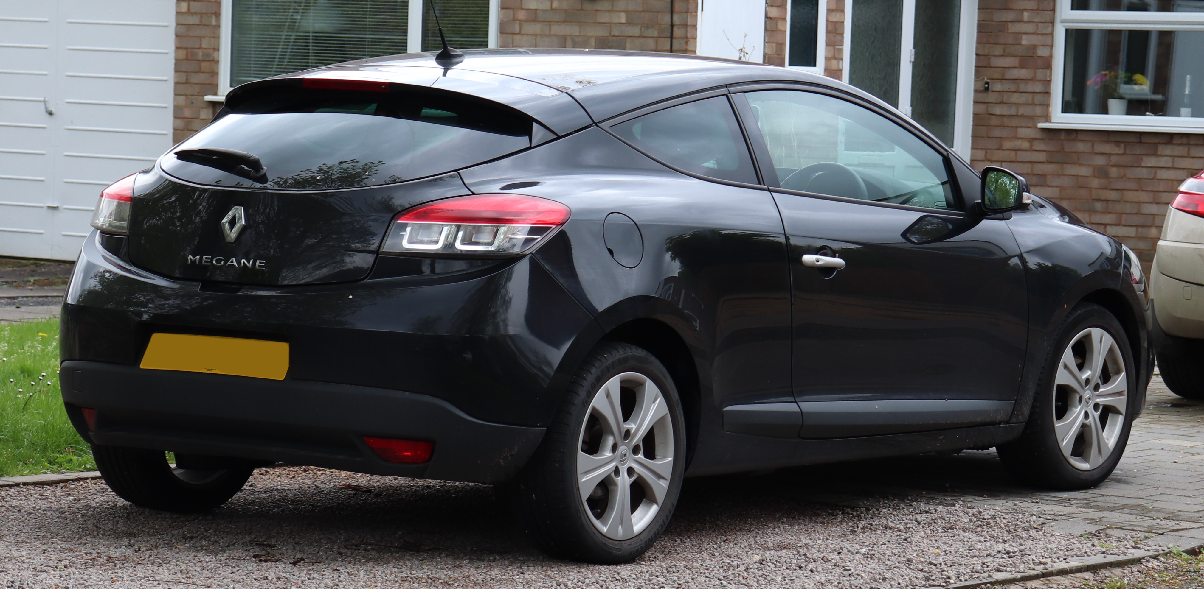 2011 Renault Megane Dynamique T-Tom DC coupe 1.5 Taken in Leamington Spa